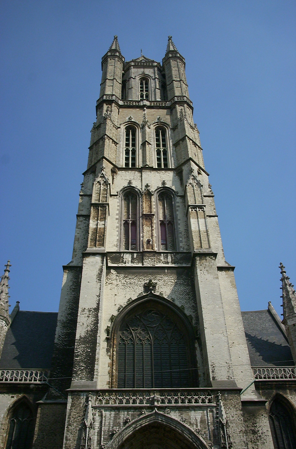 Ghent, Cathedral